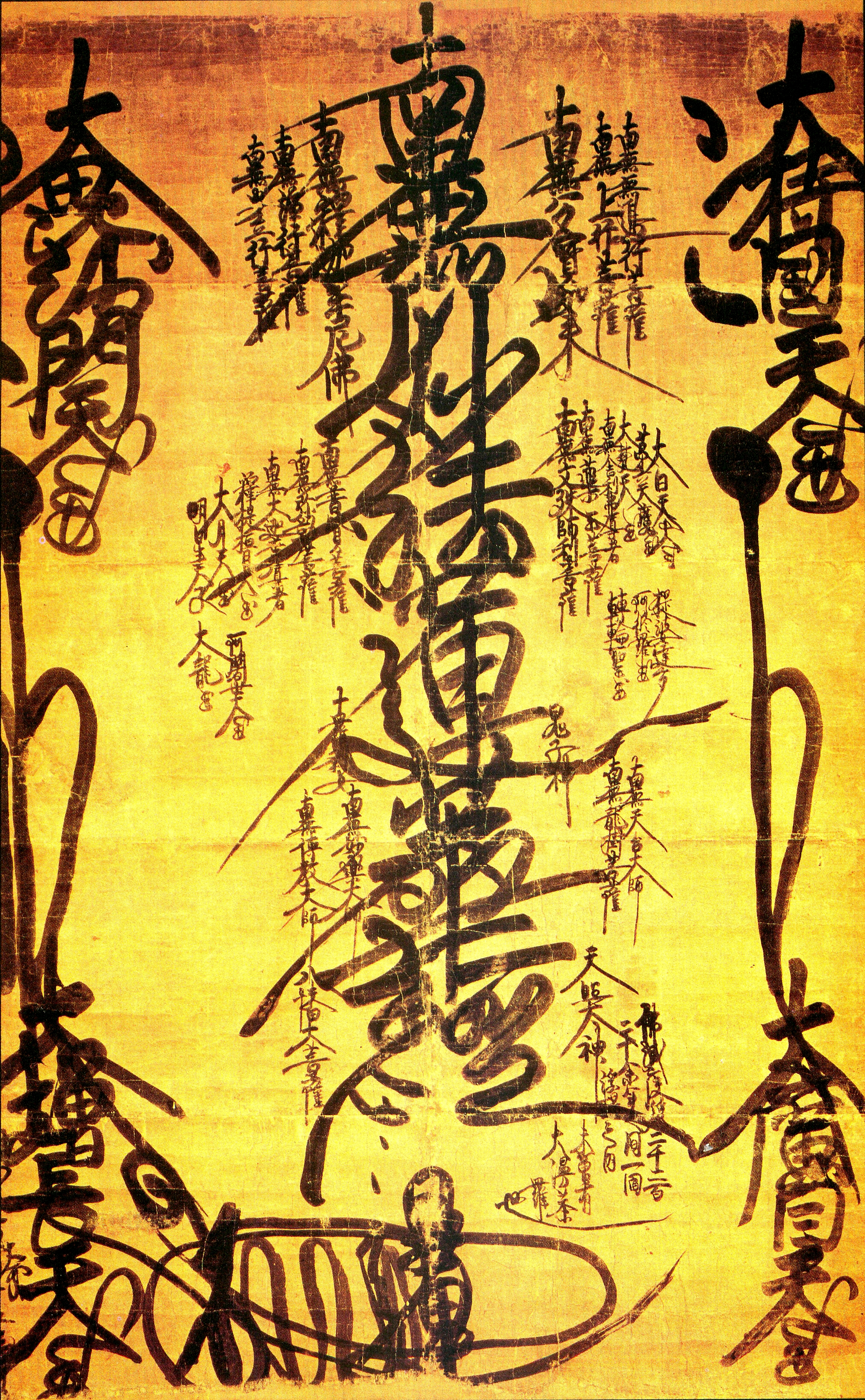 Rinmetsudojihonzon (臨滅度時本尊; "Arrival at Nirvana Gohonzon"). Reputed to be the Gohonzon that was with Nichiren at his bedside when he died. Stored at Myohonji (妙本寺) temple, Kamakura, Japan. Myohonji is affiliated with the Nichiren Shu branch of Nichiren Buddhism.